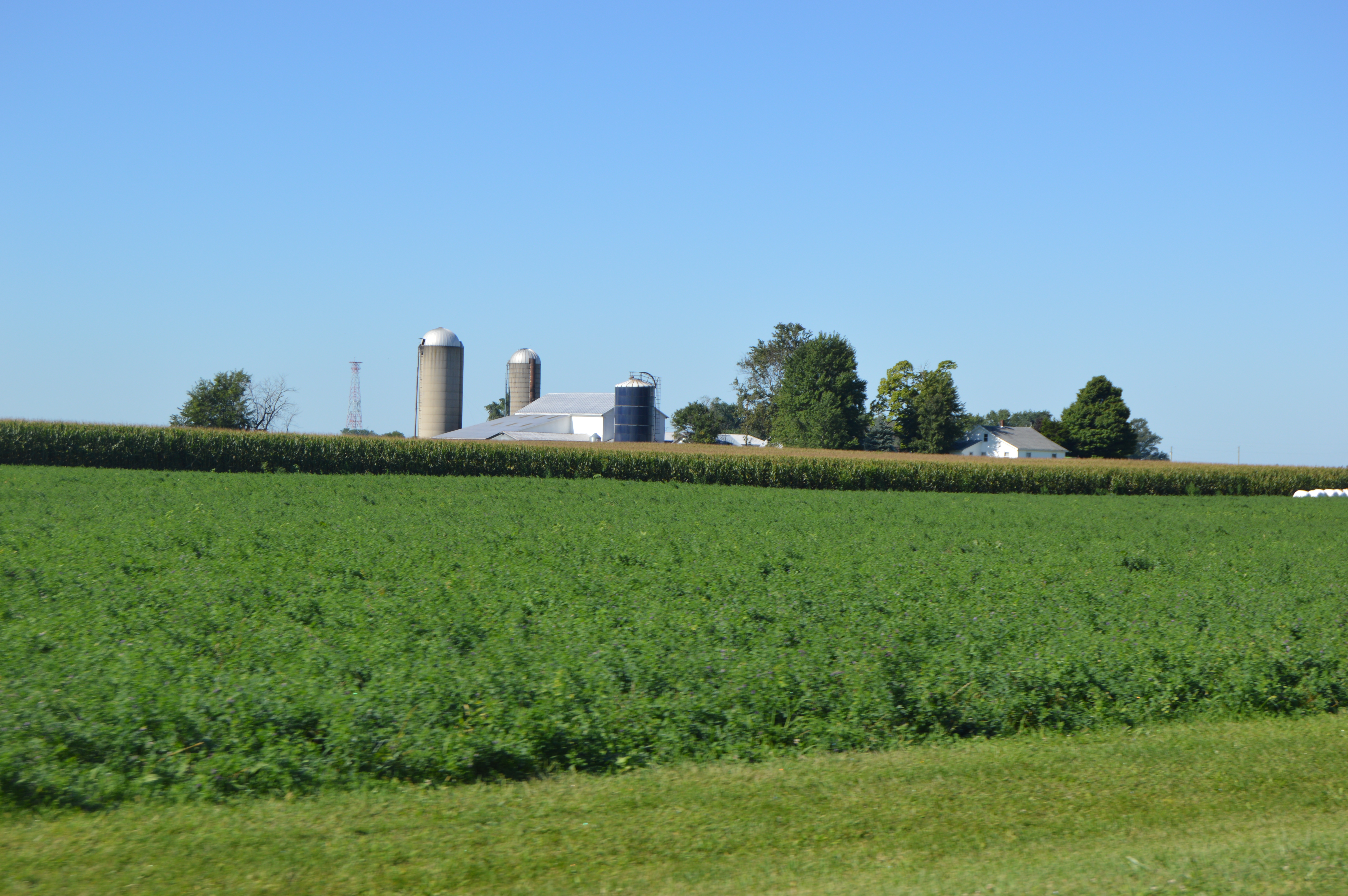 Farm buildings on the southern side of Snyder Road northeast of Fletcher in Brown Township, Miami County, Ohio, United States.